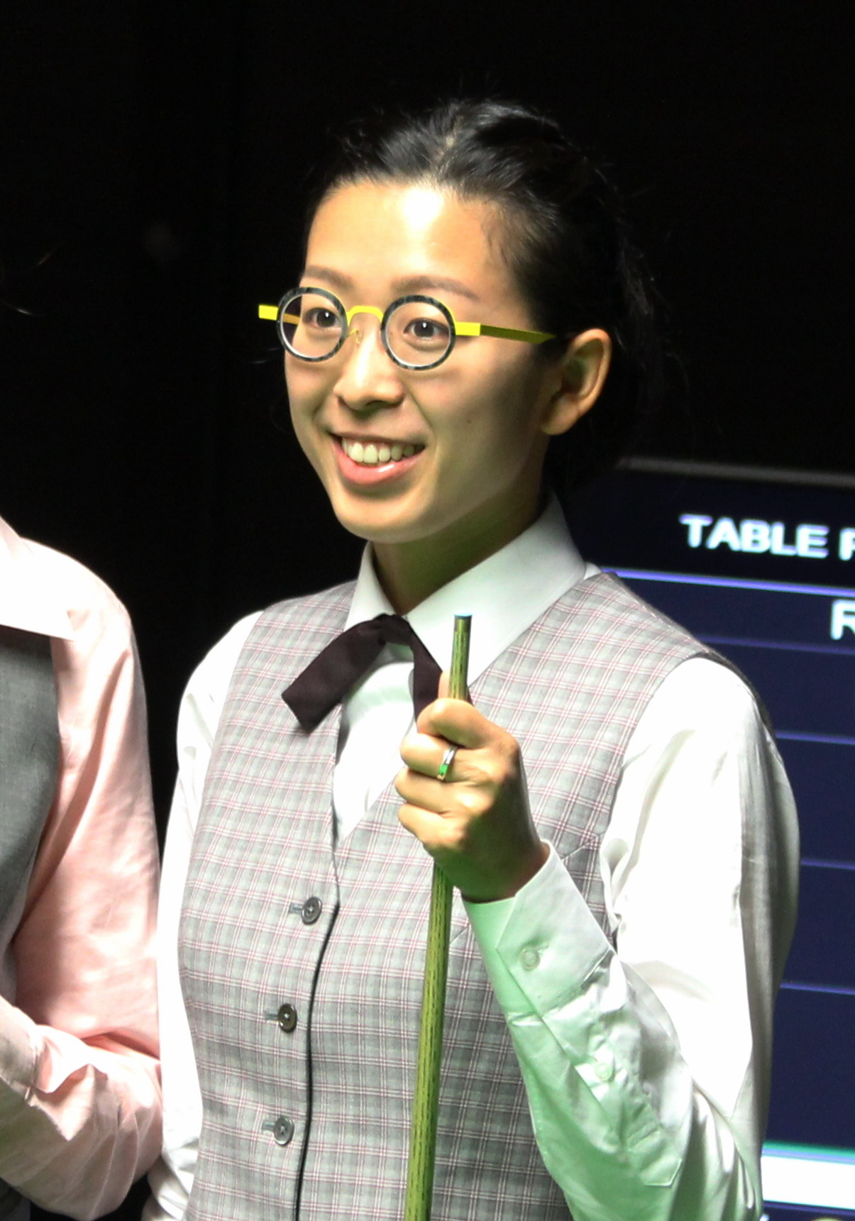 Ng On Yee at the Paul Hunter Classic 2017